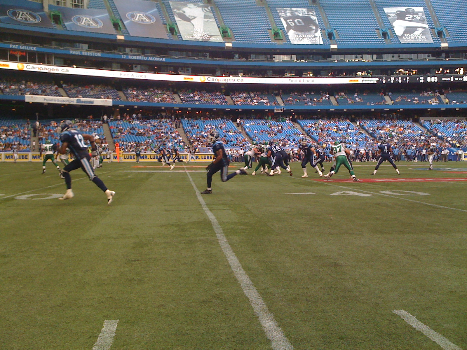 Kerry Joseph (4) of the Toronto Argonauts drops back to to throw a touchdown pass to Mike Bradwell late in the 4th quarter in a Canadian football game against the Saskatchewan Roughriders at the Rogers Centre, 11 July 2009.